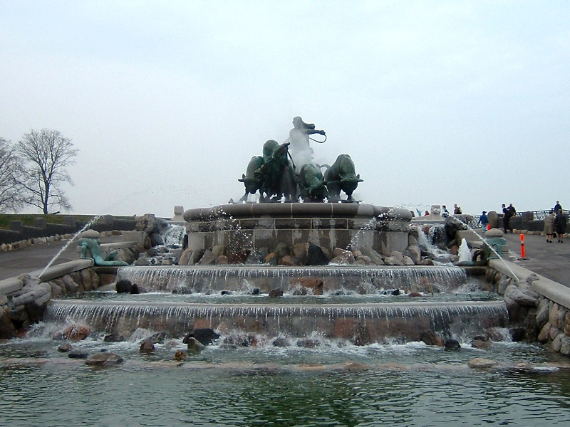 The Gefion fountain in Copenhagen